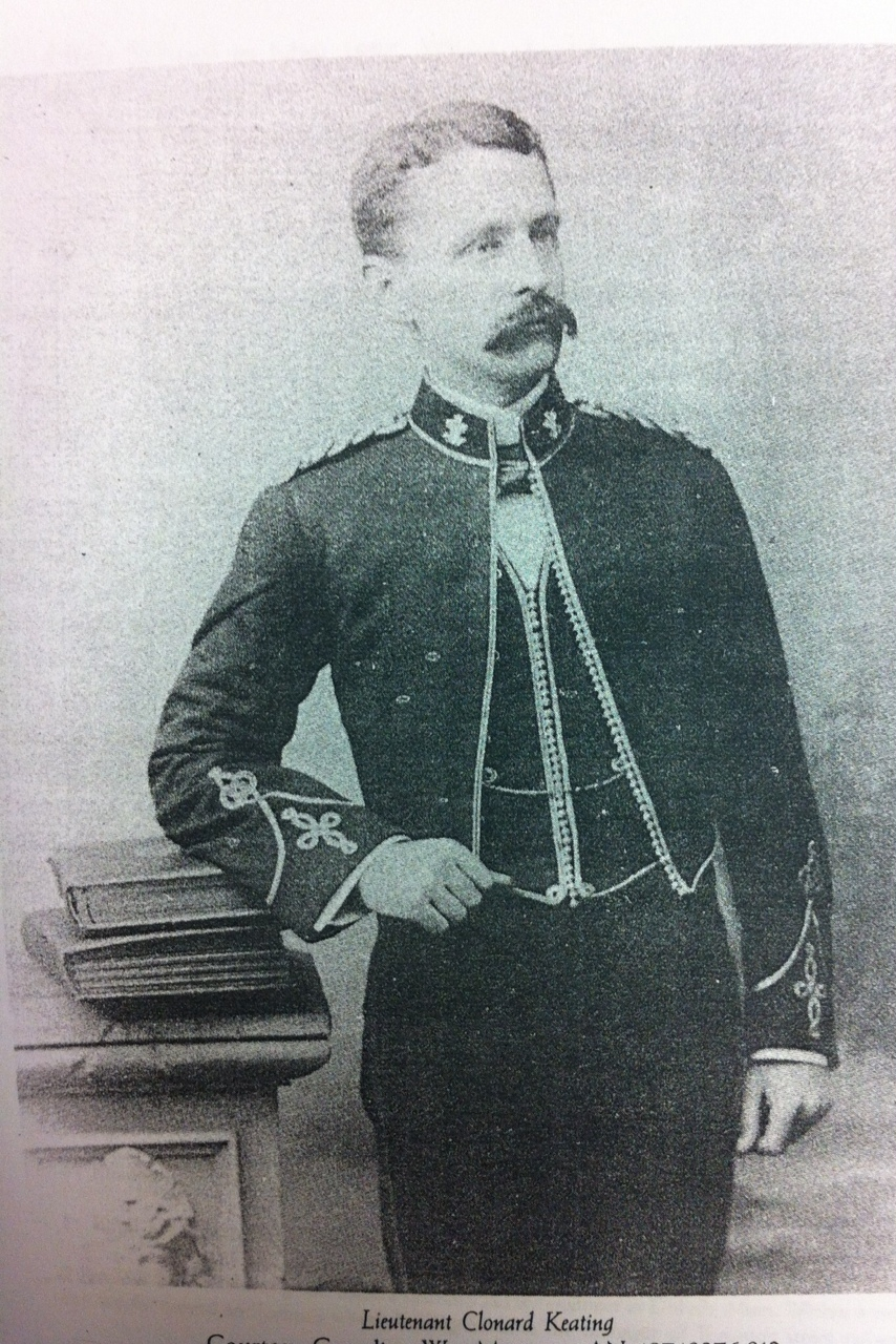 Henry Edward Clonard Keating Canadian War Museum